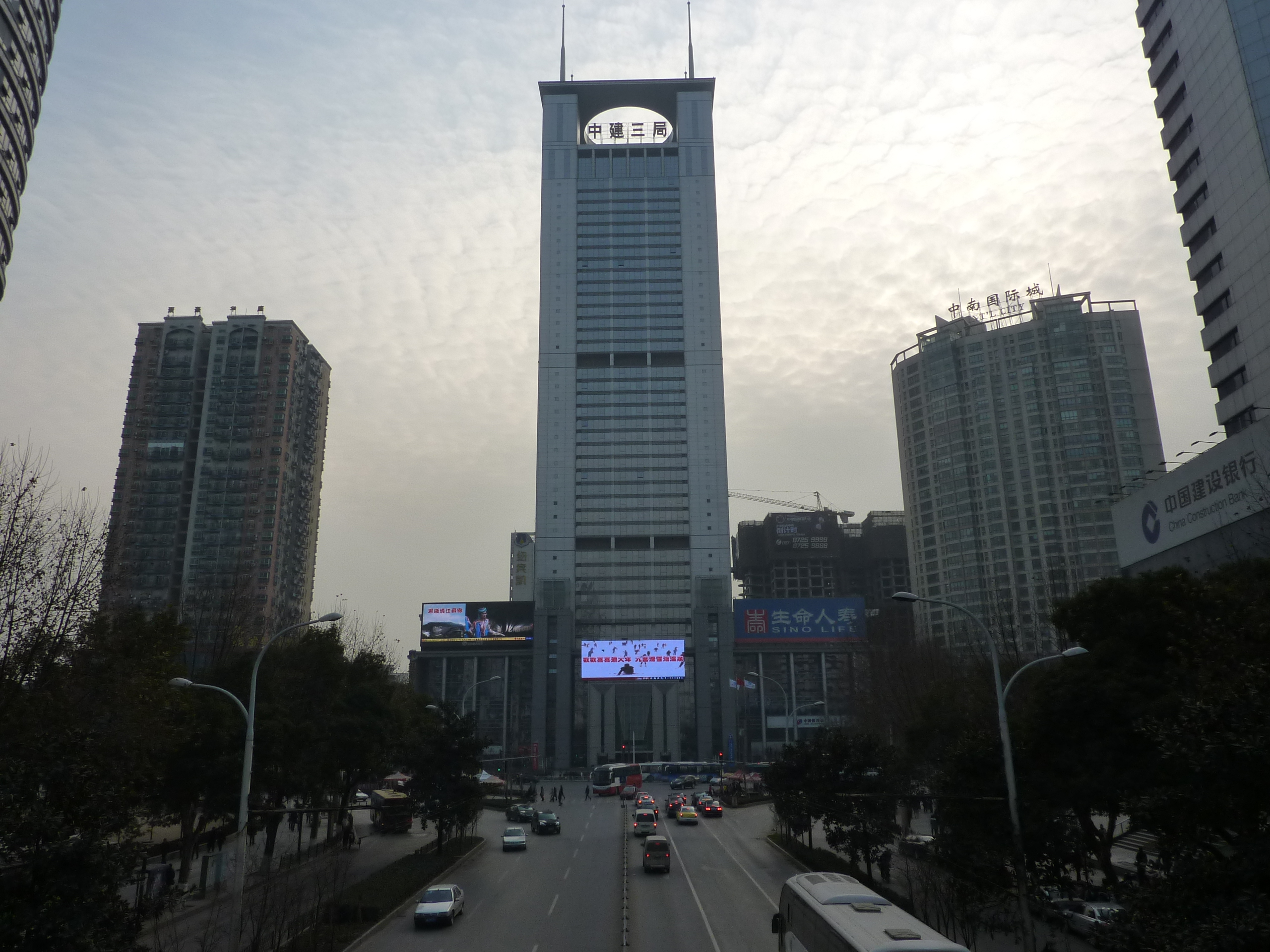 Zhongnan St in Wuhan runs between Wuluo St in the south and Hongsgan Square in the north. It is a busy, somewhat upscale, commercial street. One notable retailer there is the Foreign Languages Book Store (外文书店), on the western side of the street. Currently, Zhongnan Lu station of the future Line 2 and Line 4 of Wuhan Metro is being built in the middle of the street.